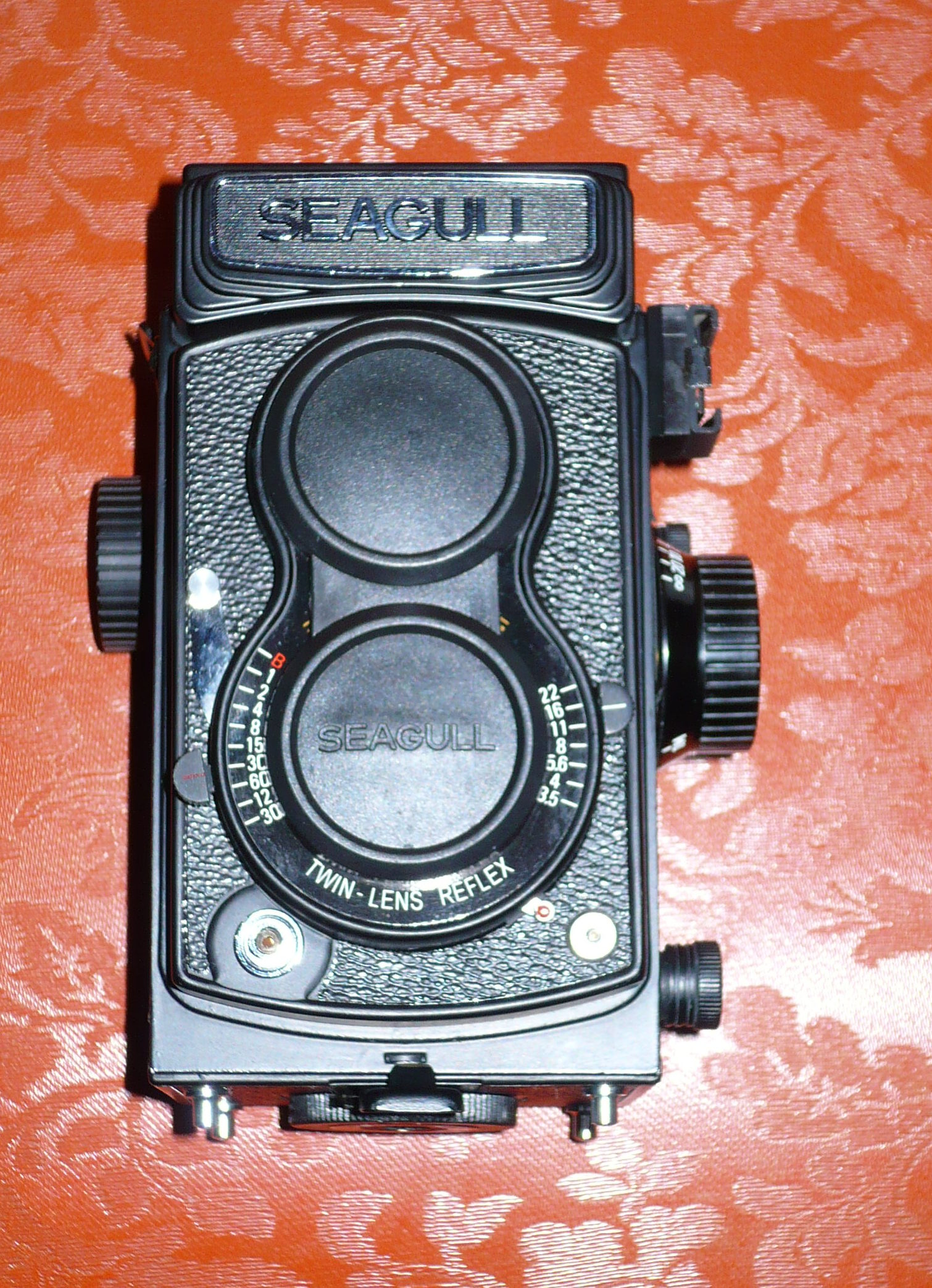 Seagull twin lens reflex camera